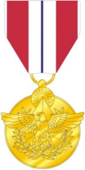 NOAA Meritorious Service Medal, obverse